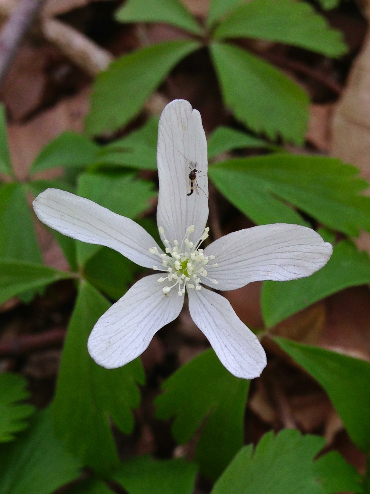 Photo of Anemone quinquefolia in flower. This is a native plant growing wild along the Potomac Heritage Trail, in Fairfax county Virginia, USA. This species is a member of the Ranunculaceae family.